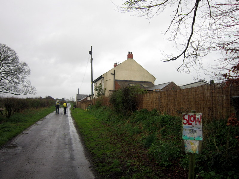 Walking towards Wall Head Farm